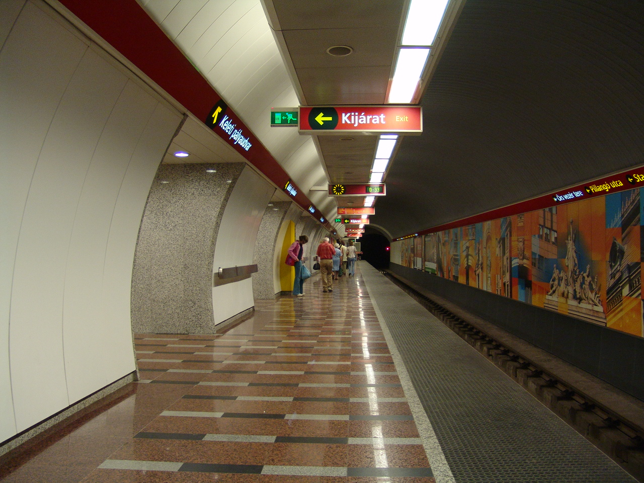 Line 2 (Budapest Metro), Keleti pályaudvar station